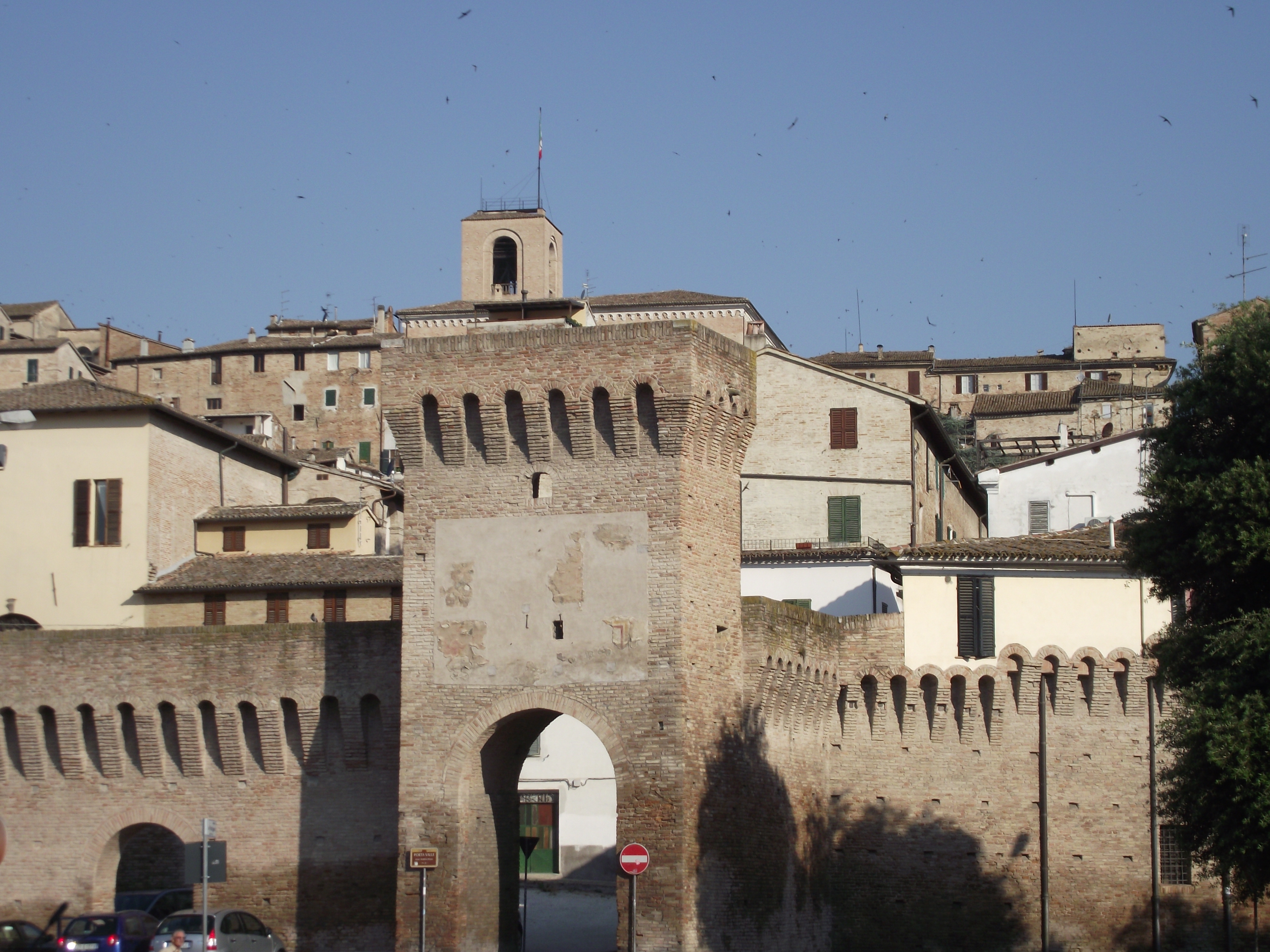 Jesi, Valley Gate, XV Century